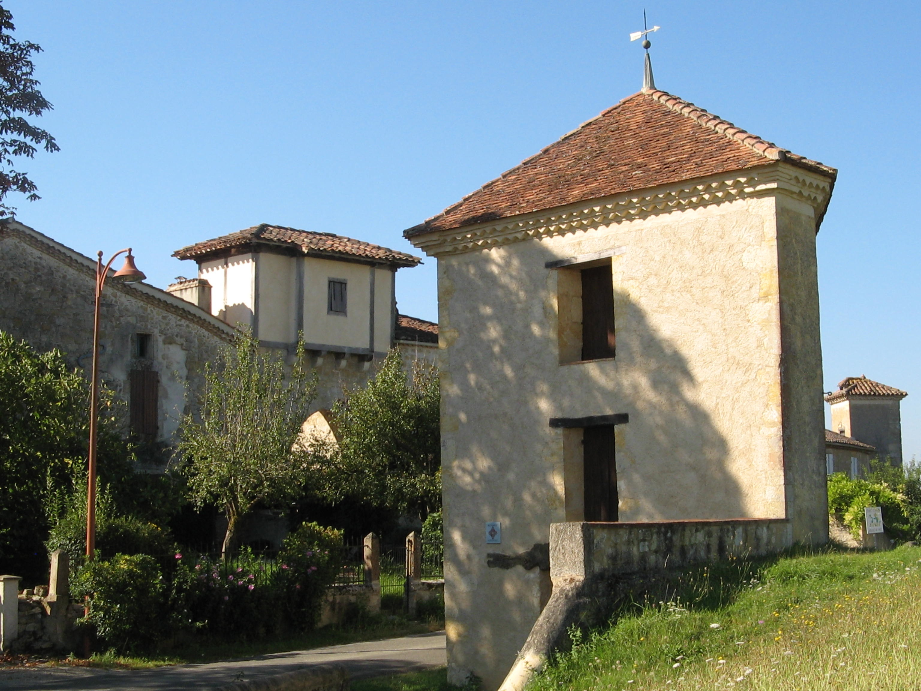 Pigeonnier-octroi de Maignaut-Tauzia, it is an unusual triangular pigeonnier with village entrance gate in background. .